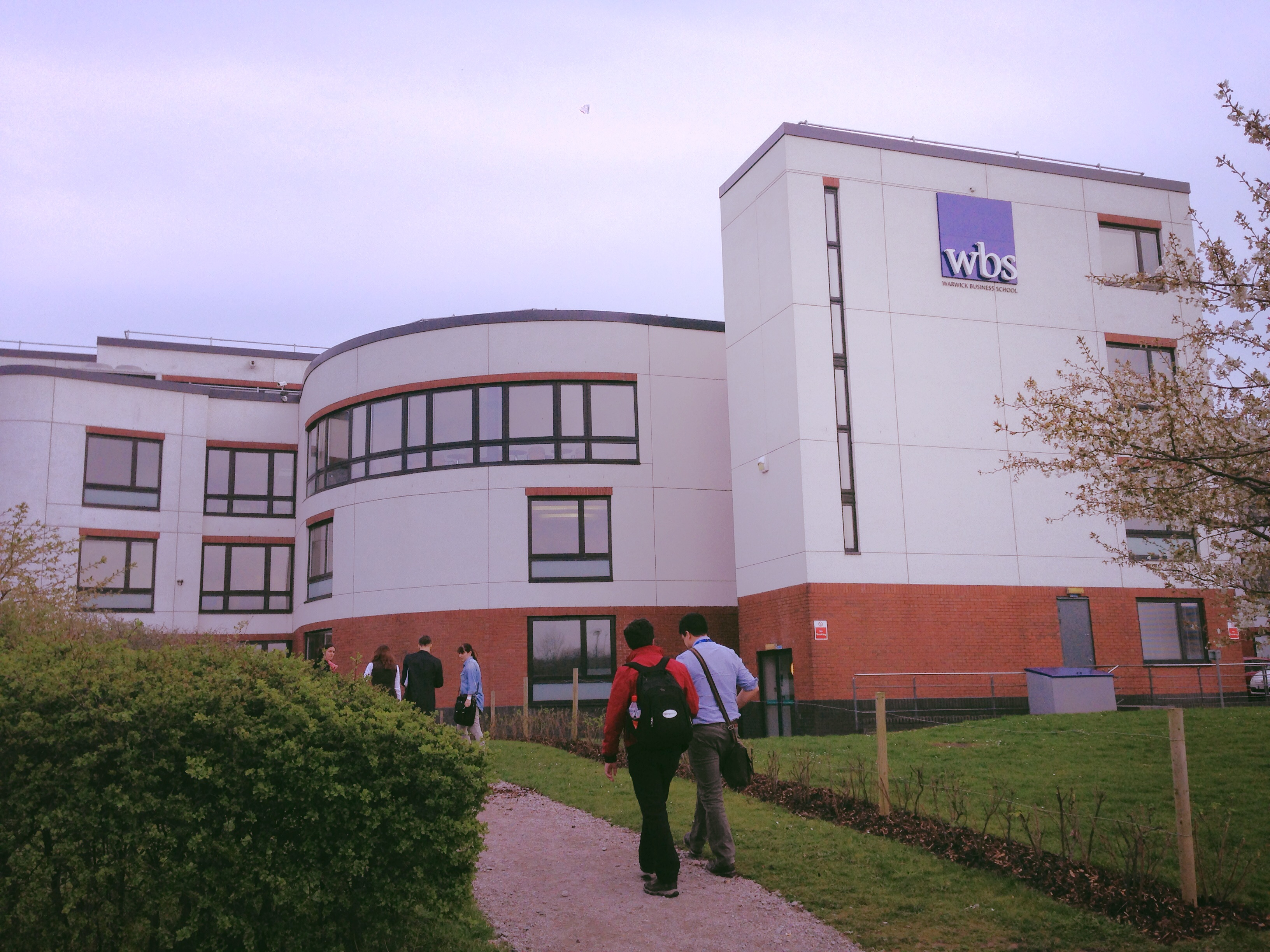 Picture of WBS taken from Scarman road.